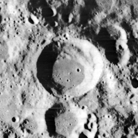 Engel'gardt crater, on the far side of the moon.